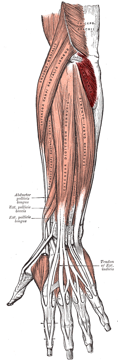 Updated image of musculus anconeus.